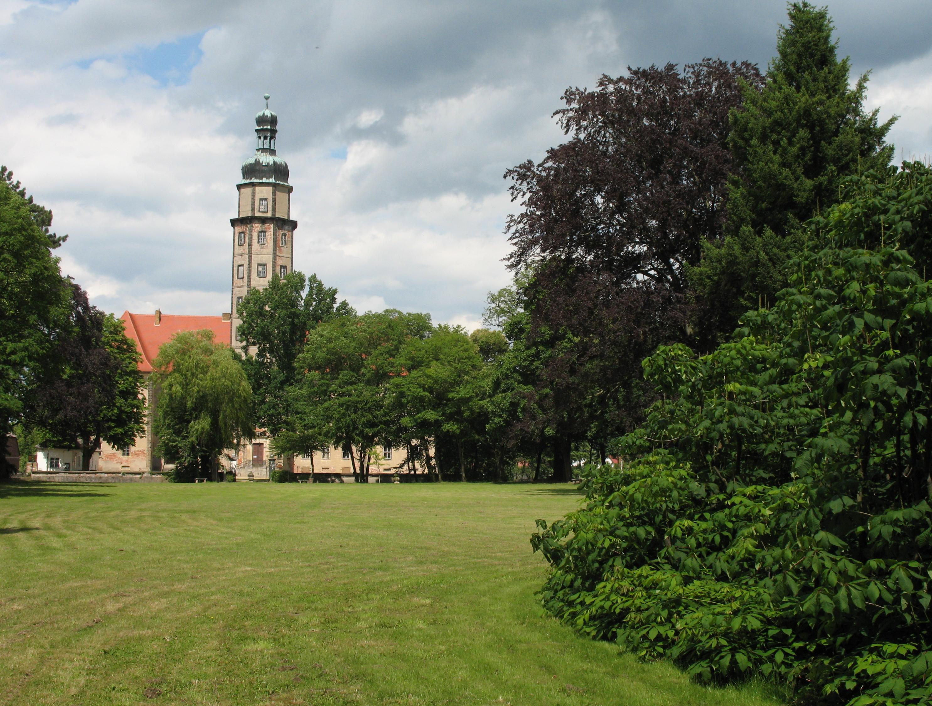 Palace garden in Bad Schmiedeberg-Reinharz in Saxony-Anhalt, Germany